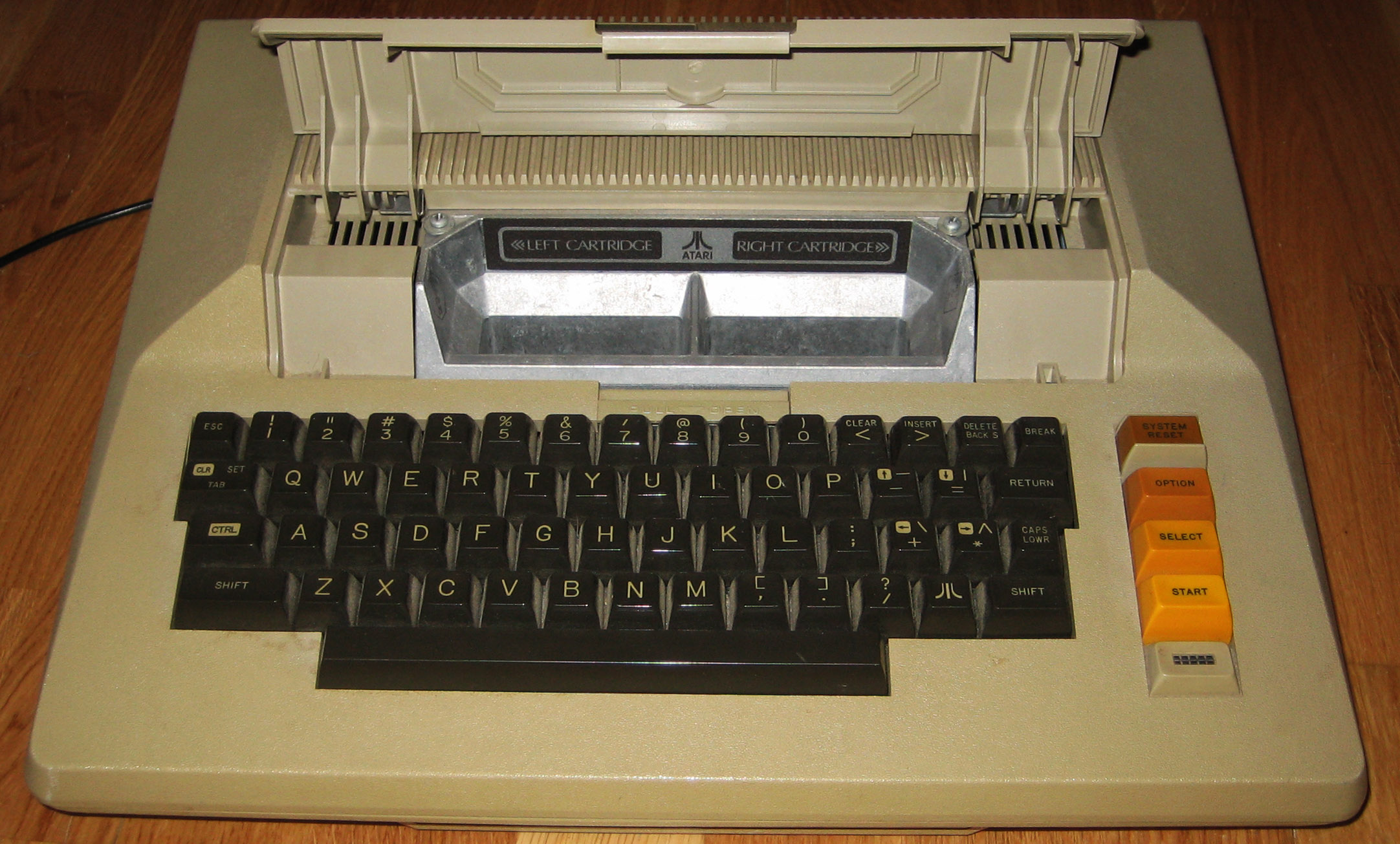 The Atari 800 home computer. Cartridge lid open. Photo taken by the uploader 081227.